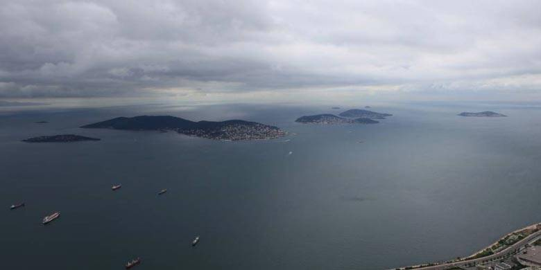 A photograph from the exhibition "Aerial Islands" by the Museum of the Princes' Islands